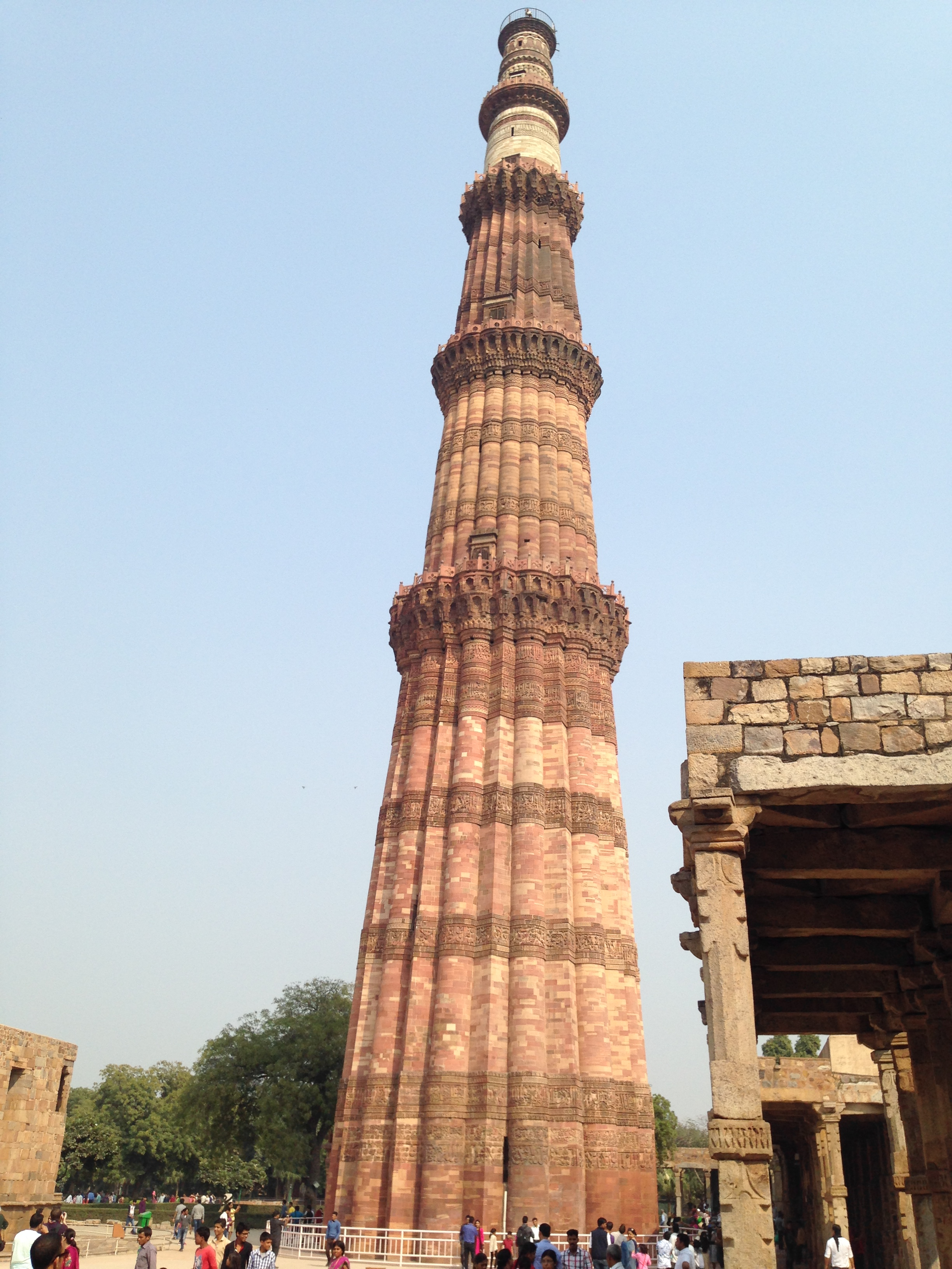 Qutb Minar in Delhi, India.